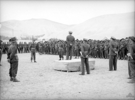 2/5th Battalion, Australian Army, in Syria November 1941 during the Second World War. The battalion is being addressed by Major General E.F Herring.